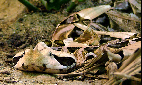 West African gaboon viper (Bitis gabonica rhinoceros).